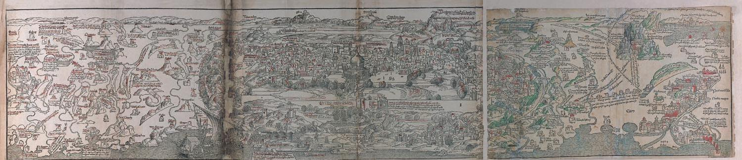 A map of the Holy Land, by Reuwich who did not visit ir. A non-realistic map. from Breydenbach, Bernard von. Peregrinatio in Terram Sanctam. Mainz, 1486. At the end of the book. Edited by Erhard Reuwich who also drew all the maps and illustrations contained in the book